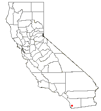 Map of California, dot on La Mesa